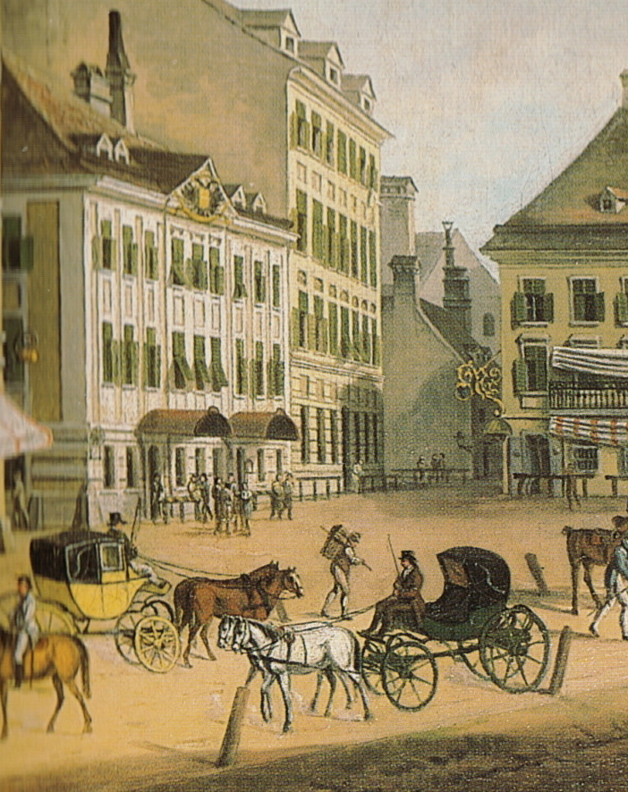 Theater in der Leopoldstadt